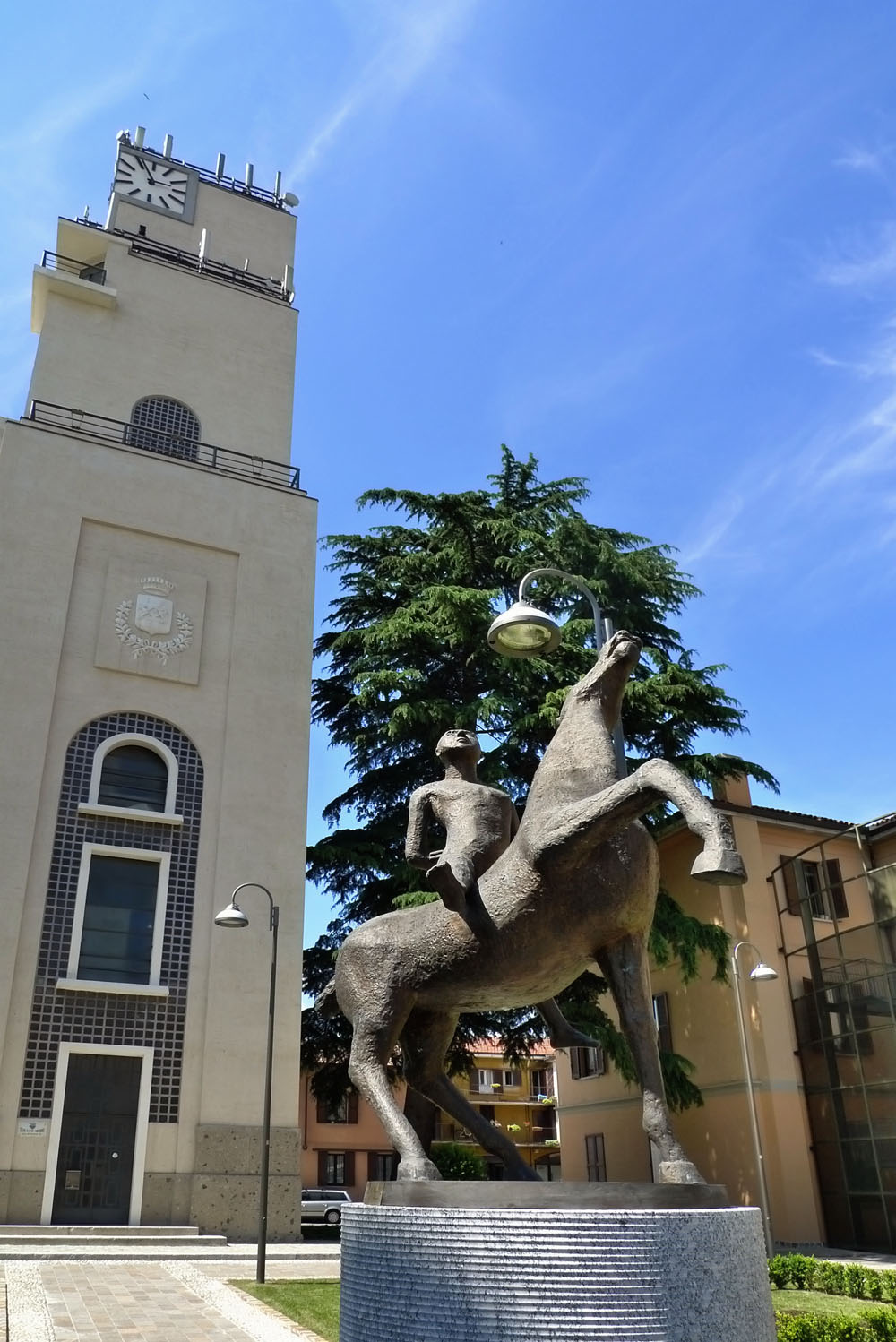 Torre civica - Carate Brianza